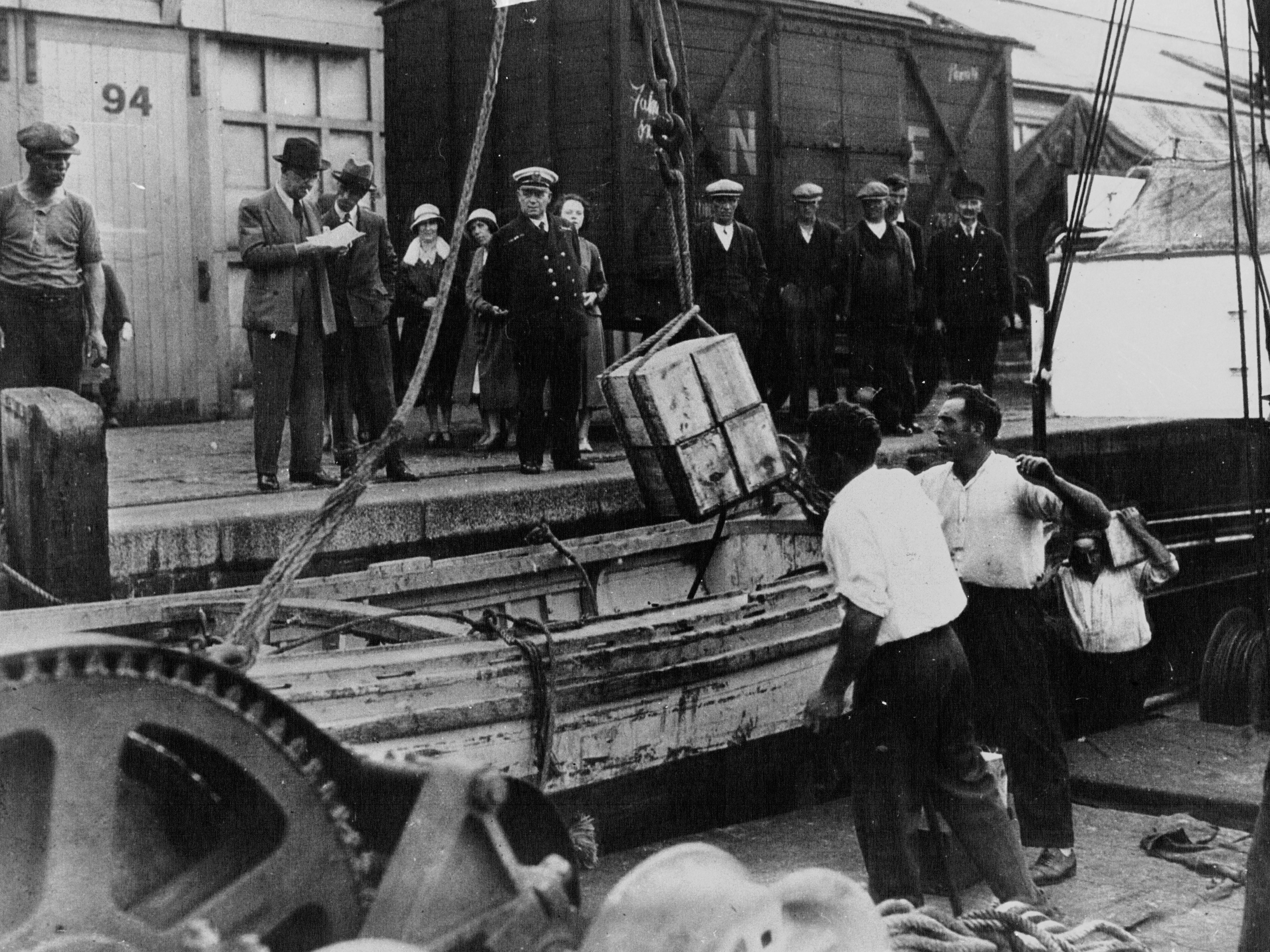 The crew of the Artiglio bringing back the recovered goods from the SS Egypt